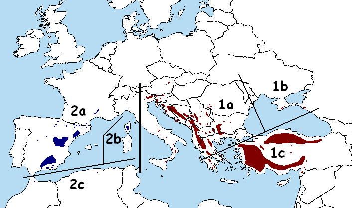 Range map of Pinus nigra 1: Pinus nigra subsp. nigra - eastern subspecies with thick leaf hypodermis 1a: Pinus nigra subsp. nigra var. nigra 1b: Pinus nigra subsp. nigra var. pallasiana 1c: Pinus nigra subsp. nigra var. caramanica 2: Pinus nigra subsp. salzmannii - western subspecies with thin leaf hypodermis 2a: Pinus nigra subsp. salzmannii var. salzmannii 2b: Pinus nigra subsp. salzmannii var. corsicana 2c: Pinus nigra subsp. salzmannii var. mauretanica